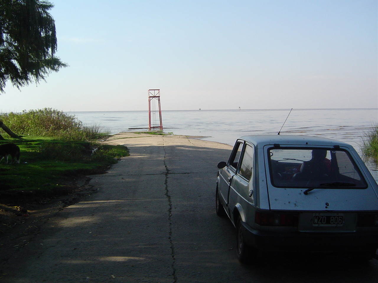 Río de la Plata seen from Bernal.